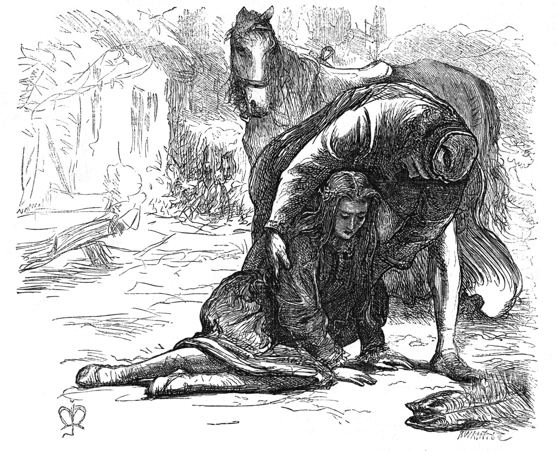 Sir Gawain bends over the exhausted Maid Avoraine in concern after she has proved her love by running after his horse for two days. Wood engraving illustration for the poem "Maid Avoraine" by Robert Buchanan. Published in Once a Week magazine, volume 7, page 98.